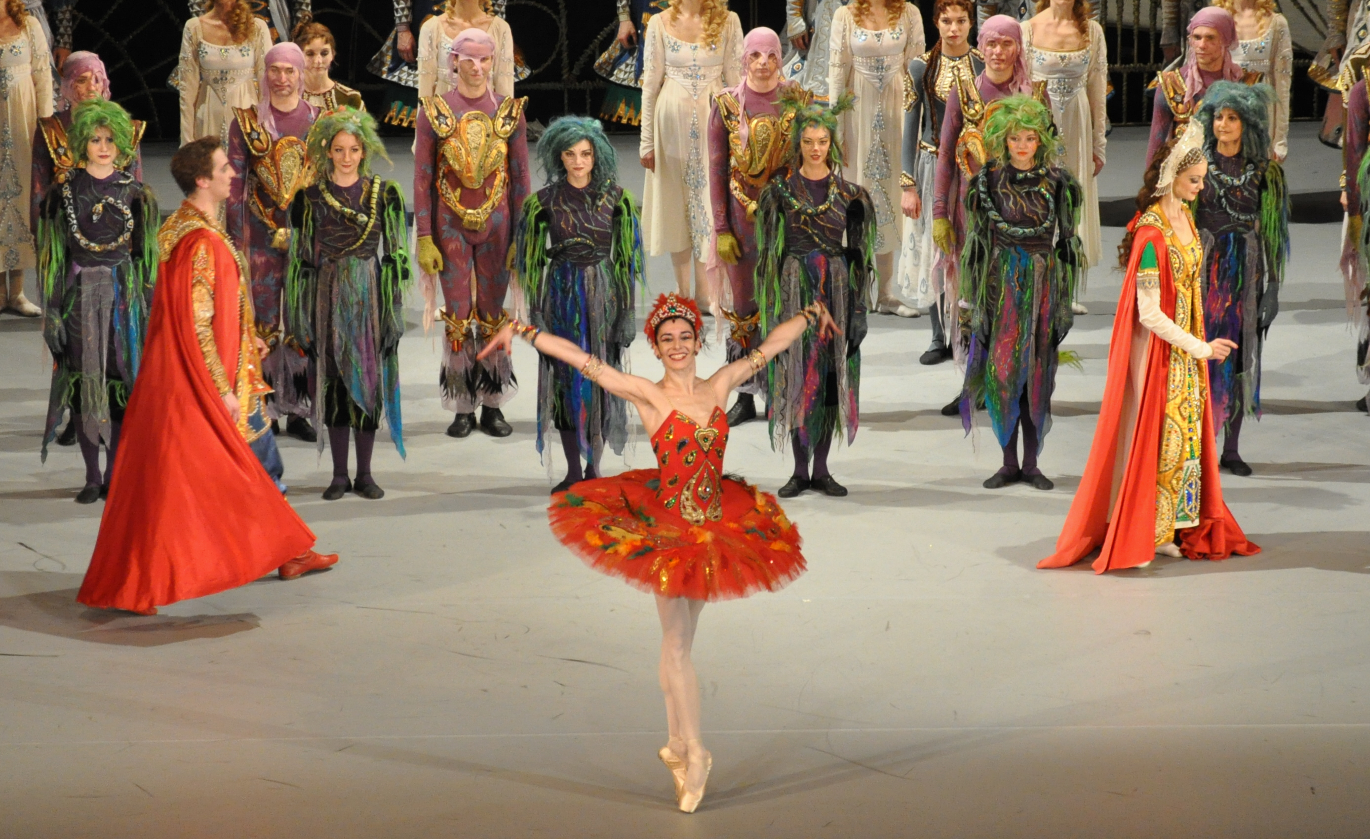 L'Oiseau de feu, reconstruction of the world premiere choreography and design. Choreography: Michel Fokin (1880–1942) Design: Alexander Golovin (1863–1930) and Leon Bakst (1866–1924) Shown at Salzburger Pfingstfestspiele 2013. Ballet of the Mariinsky Theatre, Saint Petersburg. Alexandra Iosifidi as Firebird Alexander Romanchikov as Prince Ivan Ekaterina Mikhailovtseva as Princess Soslan Kulaev as Kastchei